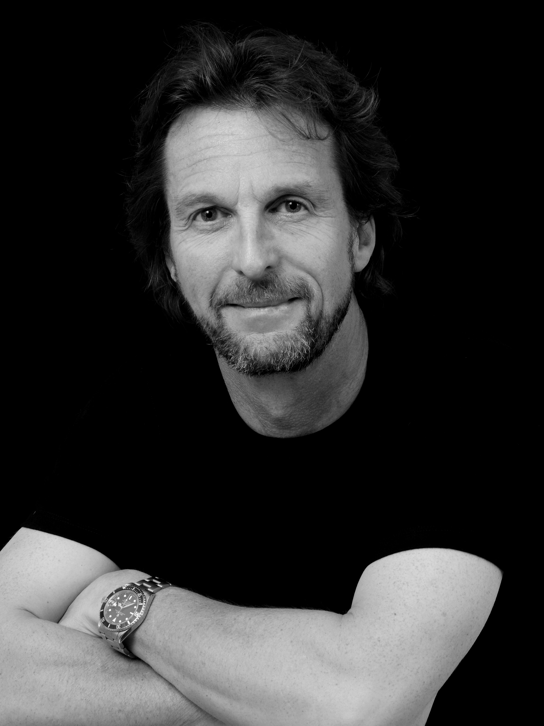 Portrait of Tom Wright Architect with black background